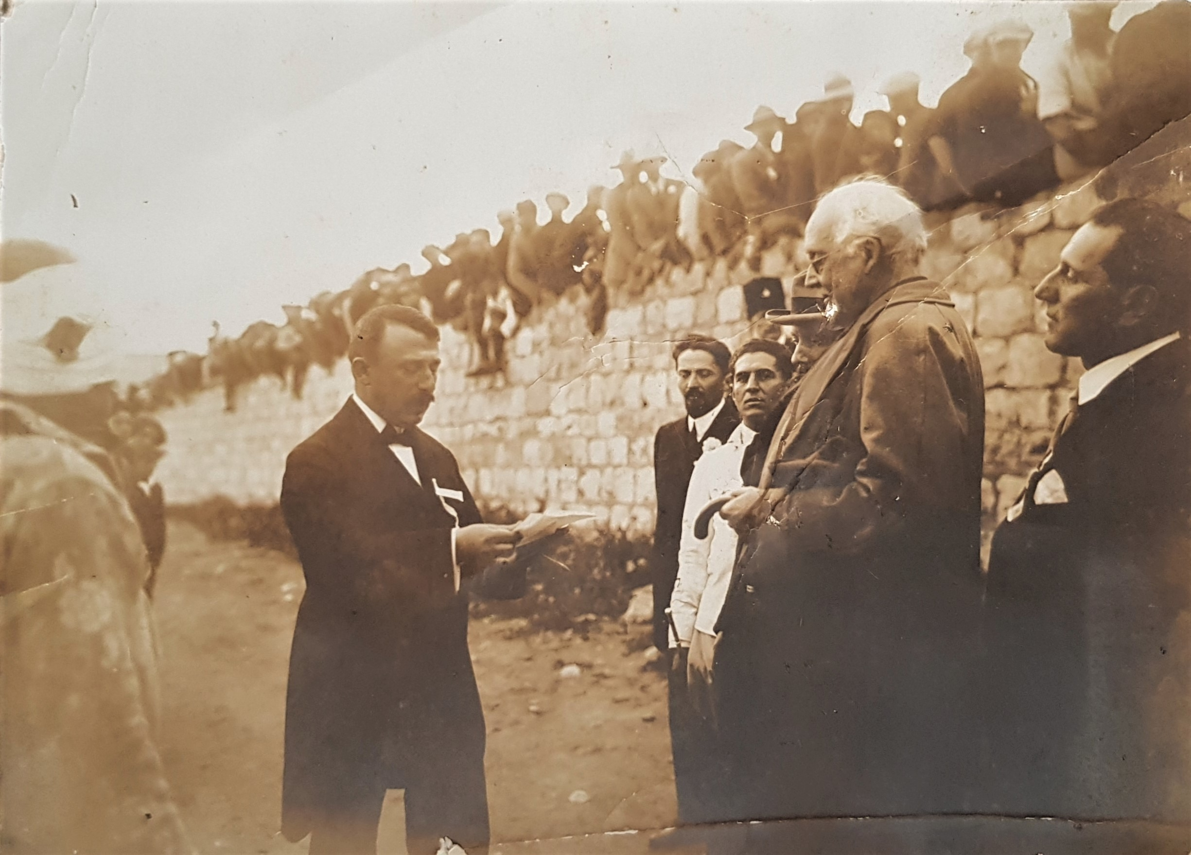 Dr Shimkin welcomes Lord Balfour in Haifa. At Lord Balfour's right, Sir Herbert Samuel, 1st High Commissioner for Palestine. Behind Balfour stands Mr. Shmuel Pevzner